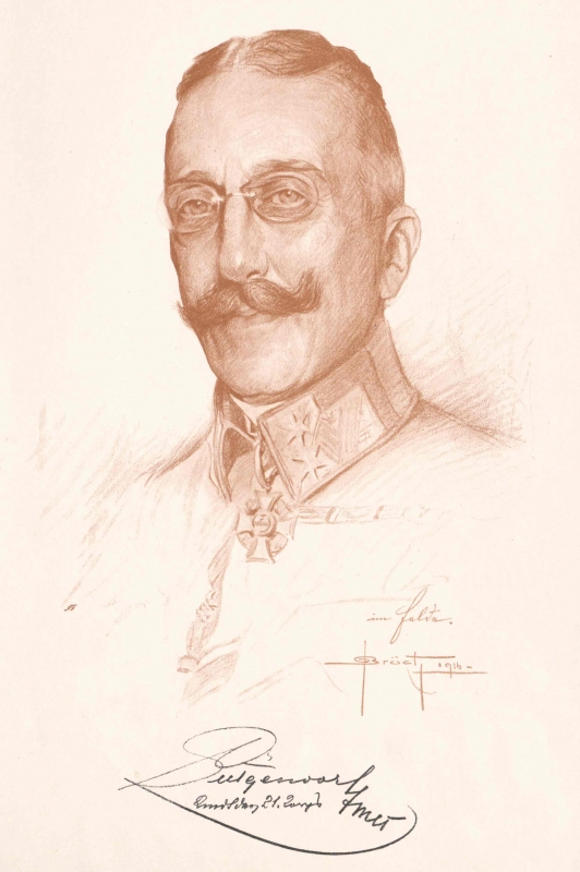 Kasimir von Lütgendorf (1862-1958), Austrian general in World War I